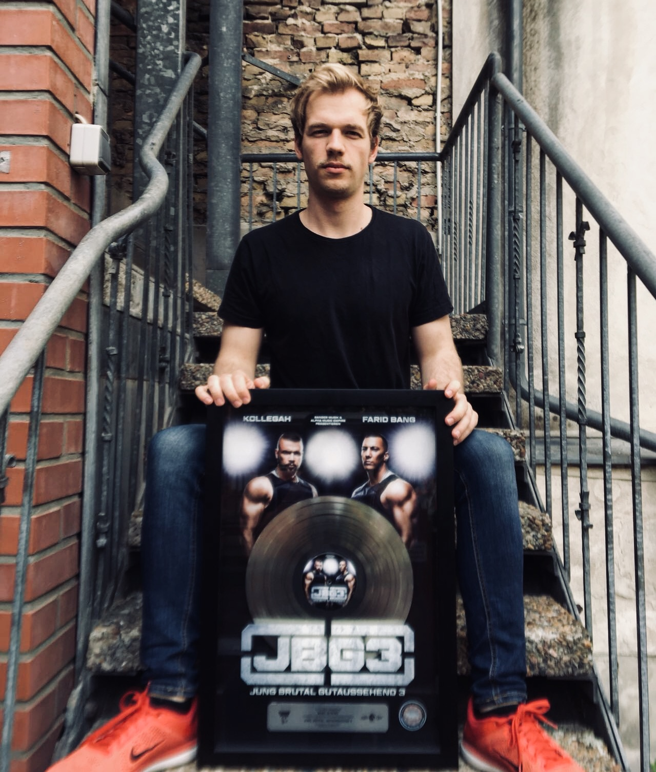 Music producer Reflectionz with the platinum certification for his contribution on Kollegah's and Farid Bang's album JBG3